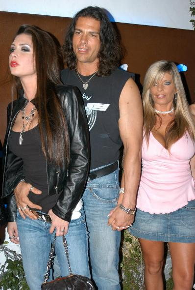 Nov 6 2006: Starlets Britney Skye and Tera Patrick will host a party Monday night at Joseph’s Café (1775 Ivar St.) in Hollywood. The event will celebrate the release of Teravision’s latest title, Sexxxpose’ Britney Skye.